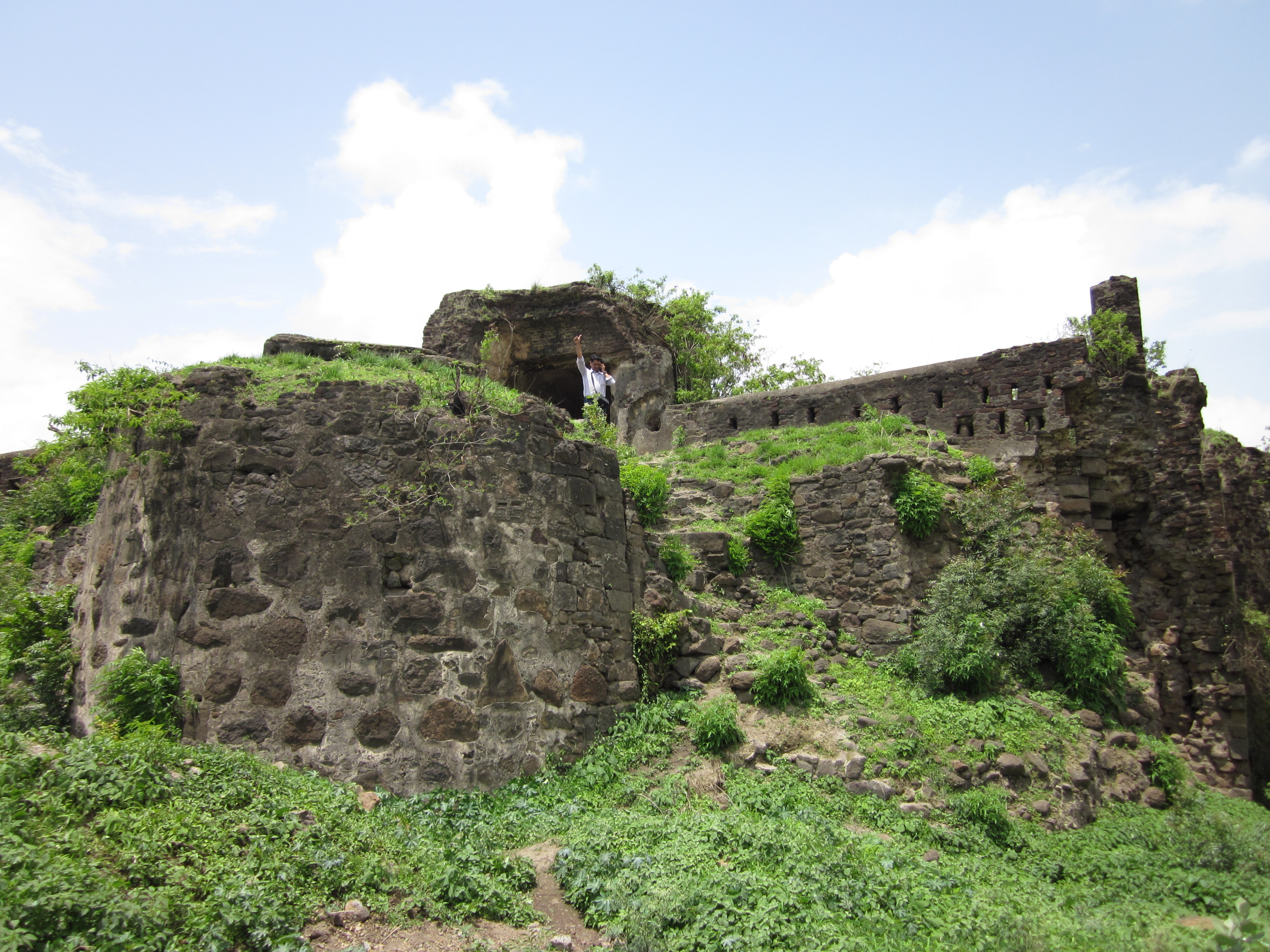 A view of the totally ruined Chakan Fort in the suburb of Chakan, in the western Indian city of Pune (Poona). This is considered to be one of the very few forts of the local warrior king Shivaji which is located at ground level. We went to Chakan looking for the site of the upcoming Pune (Poona) International Airport. Slated to be the largest airport in India, the proposal has been hanging fire since 2004 due to red tape, difficulties in obtaining clearances, objections from the Air Force (Pune/ Poona is a major air force base) and last by not least bickering by local politicians out for their pound of flesh who keep instigating the local farmers to protest against 'inadequate compensation' and to not let the project go forward. Indeed, much of India's progress is hampered by self serving politicians. In the end, we never managed to see the airport site as it was still a good 7 - 8km away, it was still caught in politicians' mischief, and no one could really tell us where exactly the site lay.(Pune/ Poona, June 2011)